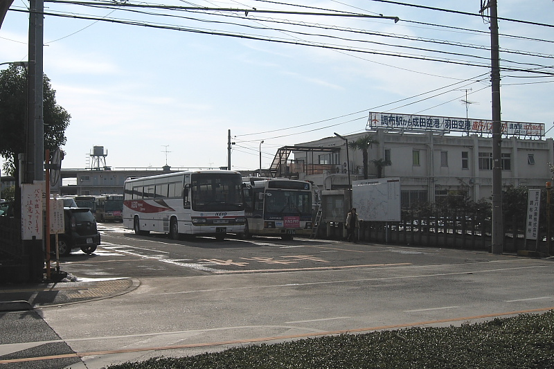 Keio Bus Higashi Chofu Depot in Chofu, Tokyo, Japan (taken from public road)